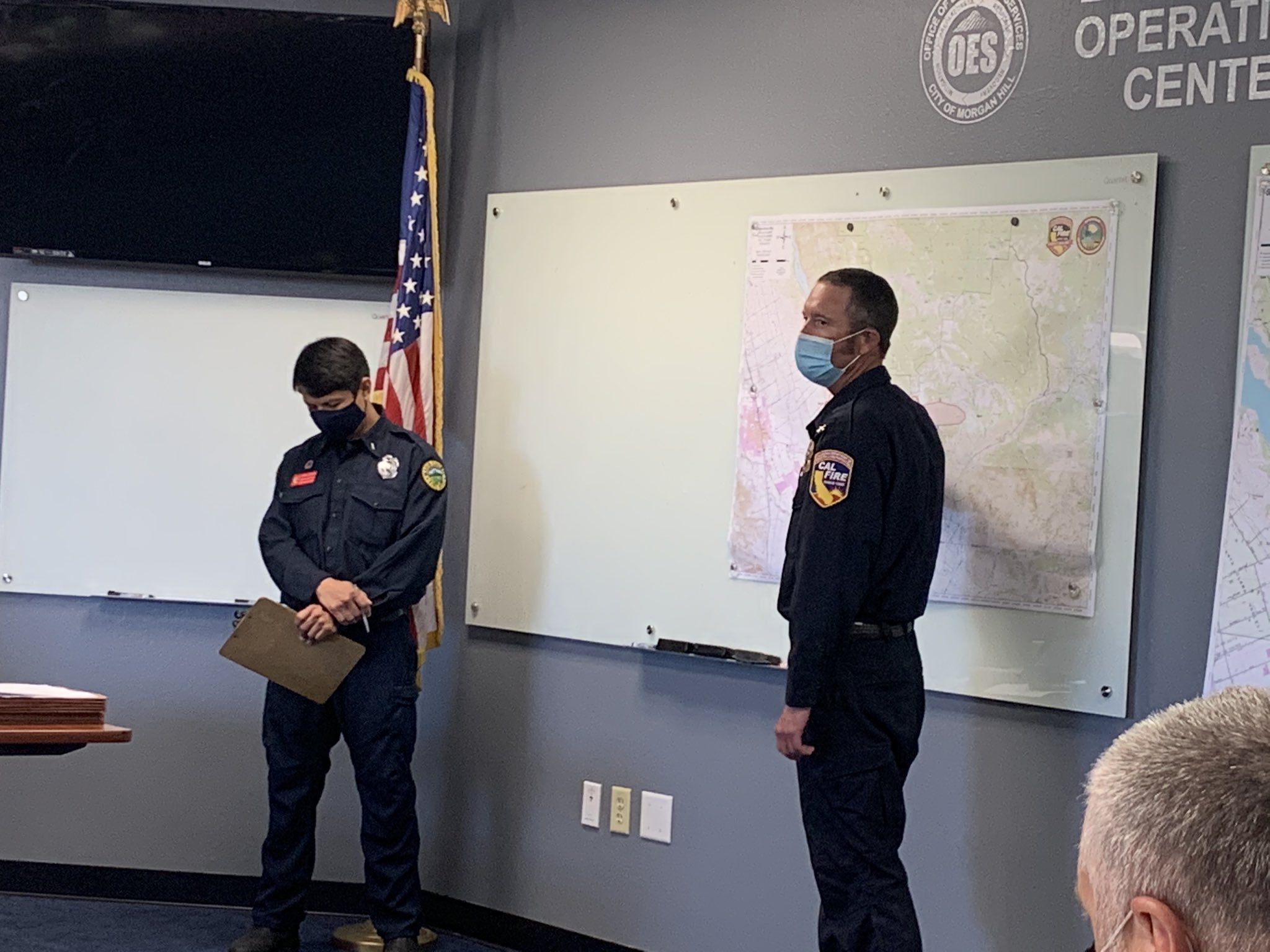 CrewsFire [Update] Fire is now at 2000 acres and 20% contained. Evacuations remain in place. CAL FIRE Incident Management Team 6 is receiving an inbrief from the Operation Section Chief Mathiesen.